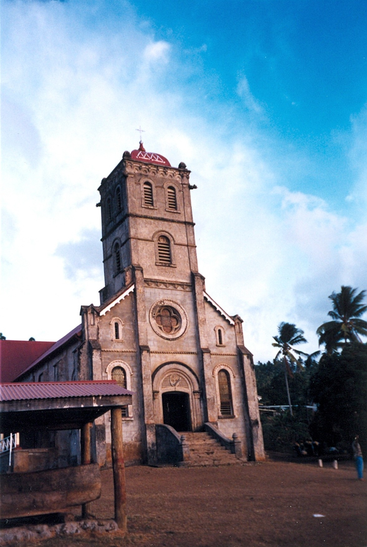 Wairiki Mission, Taveuni Island, Fiji.